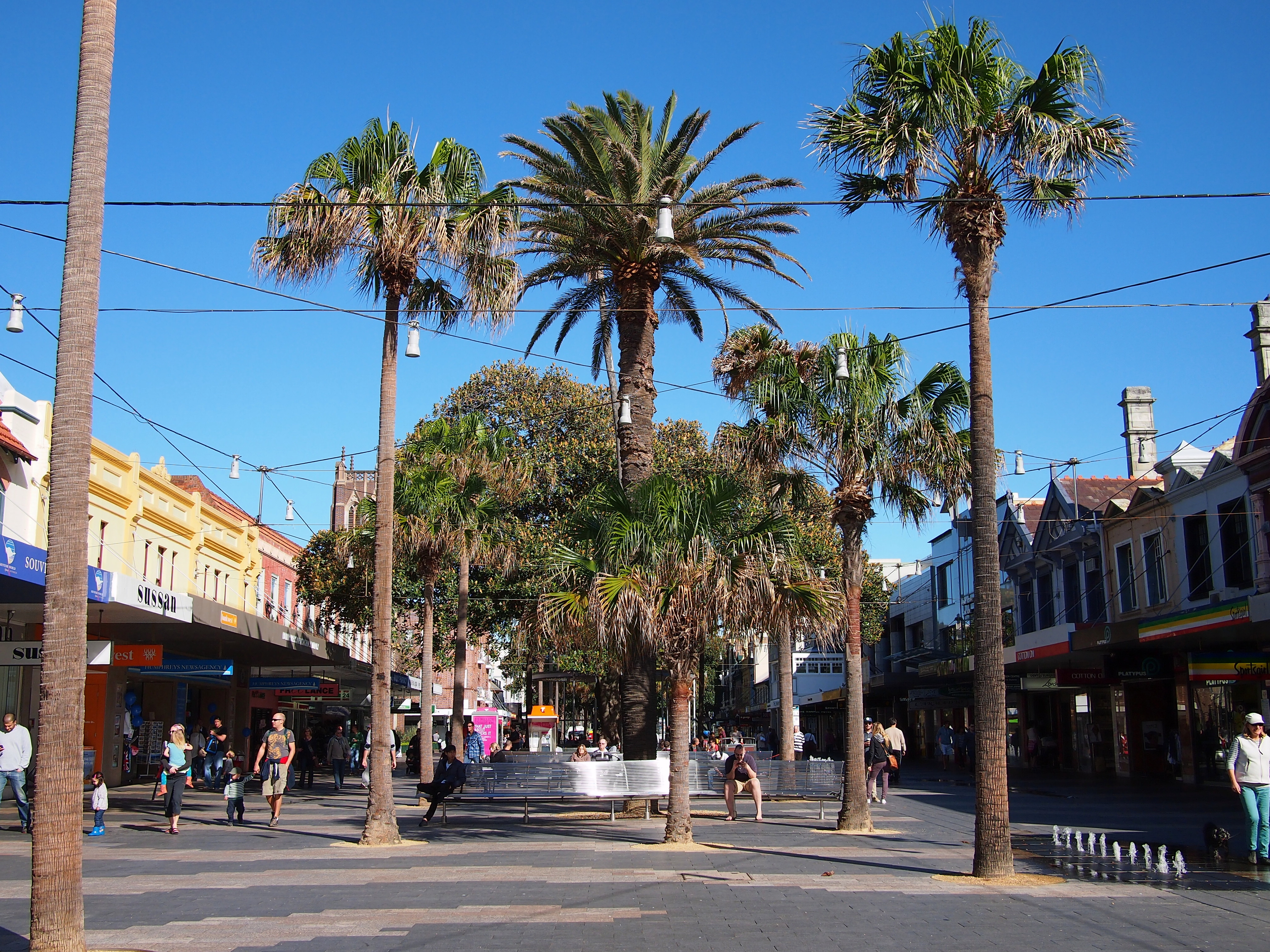 Part of The Corso in Manly during July 2013